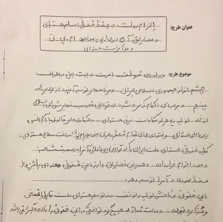 Javad Karimi Ghodoosi bill on preserving Iran nuclear rights in MPT framework.